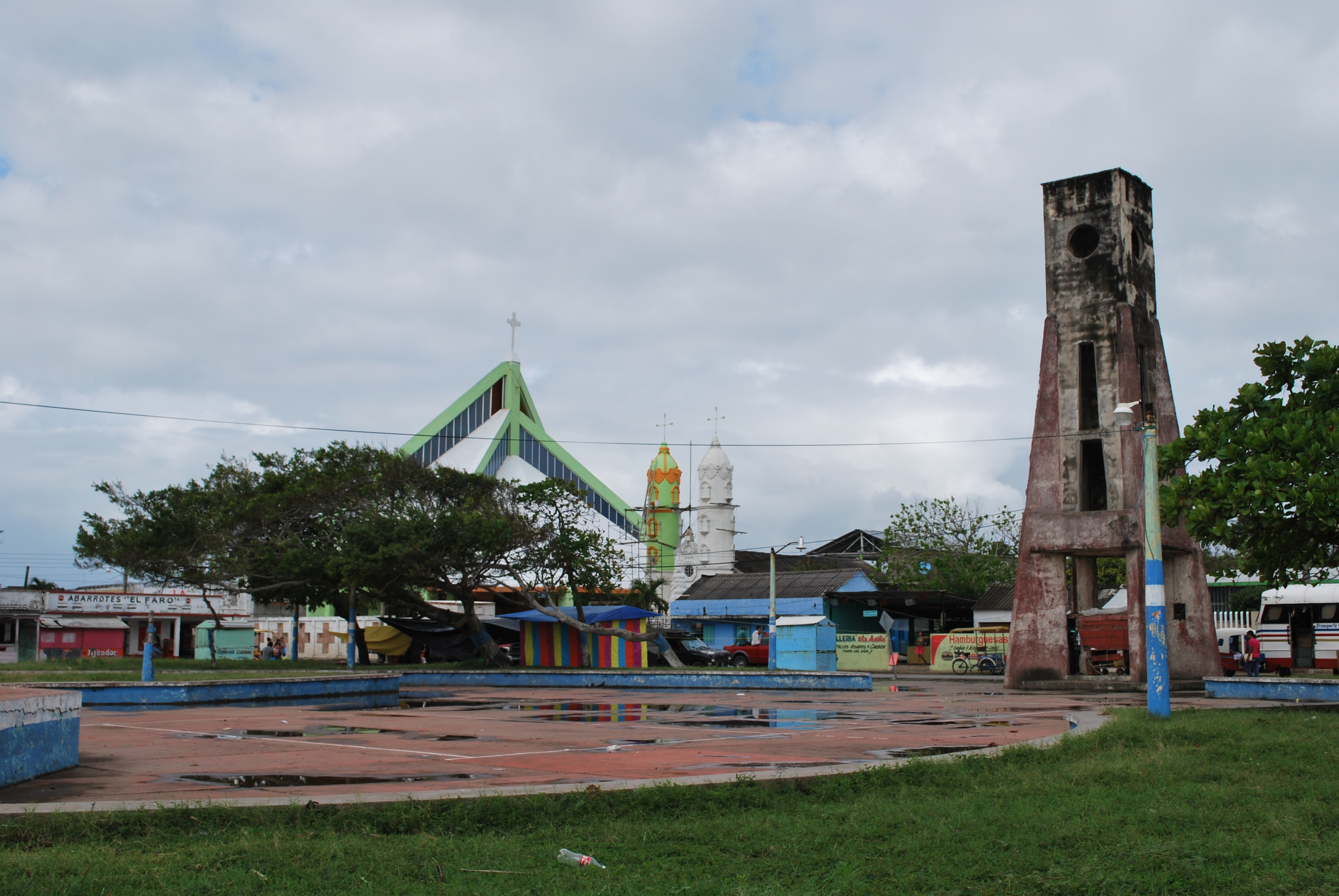 Main plaza of Sanchez Magallanes, Tabasco, Mexico